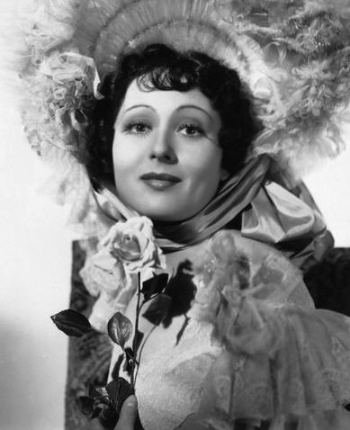 Still of Luise Rainer from the film The Great Ziegfeld (1936).